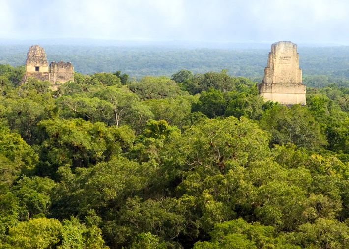 I took this from the Temple IV pyramid. This scene was also featured at the end of Star Wars.